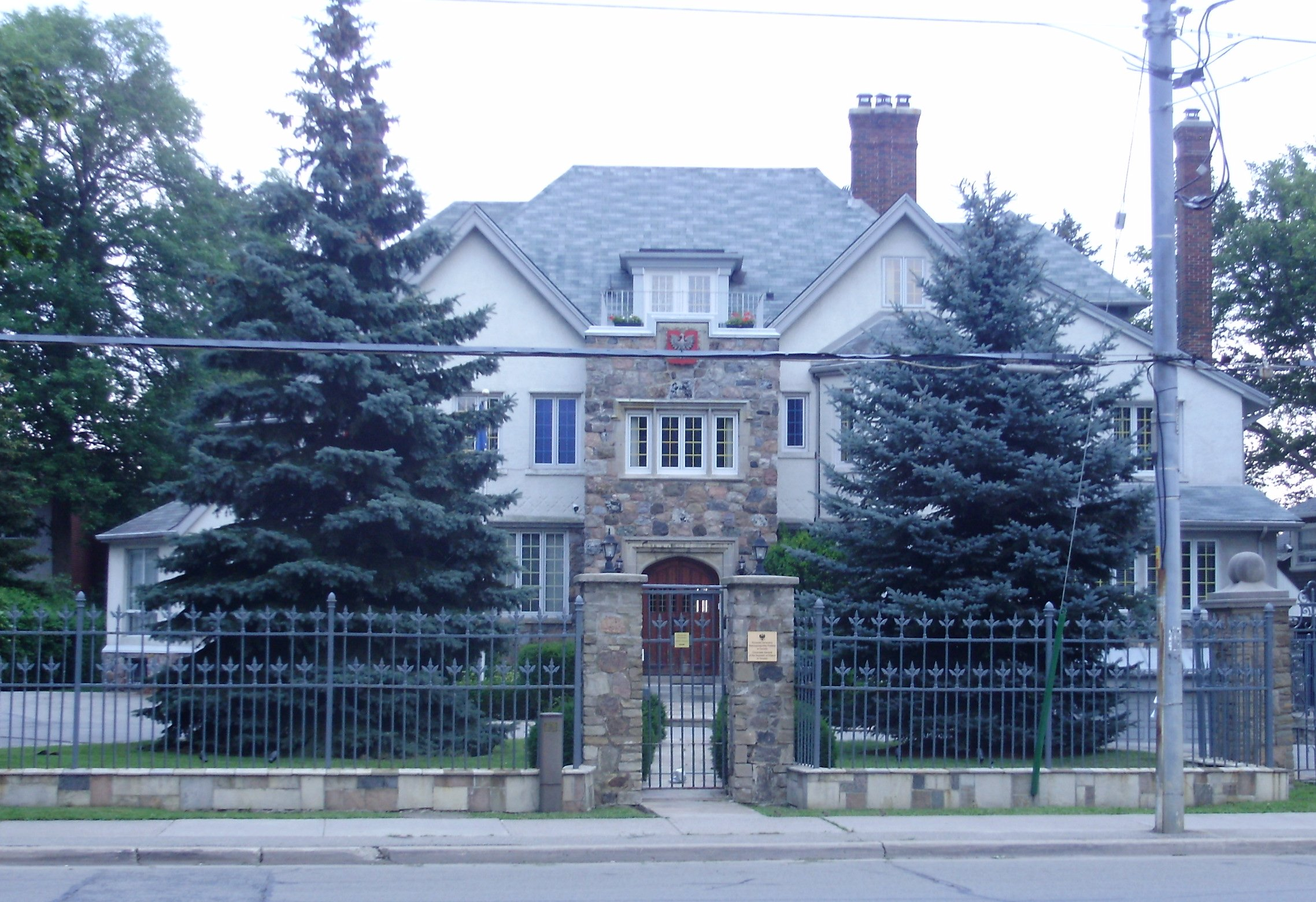 The Consulate-General of the Republic of Poland in Toronto, Canada, located along Lake Shore Boulevard in the neighborhood of Mimico.